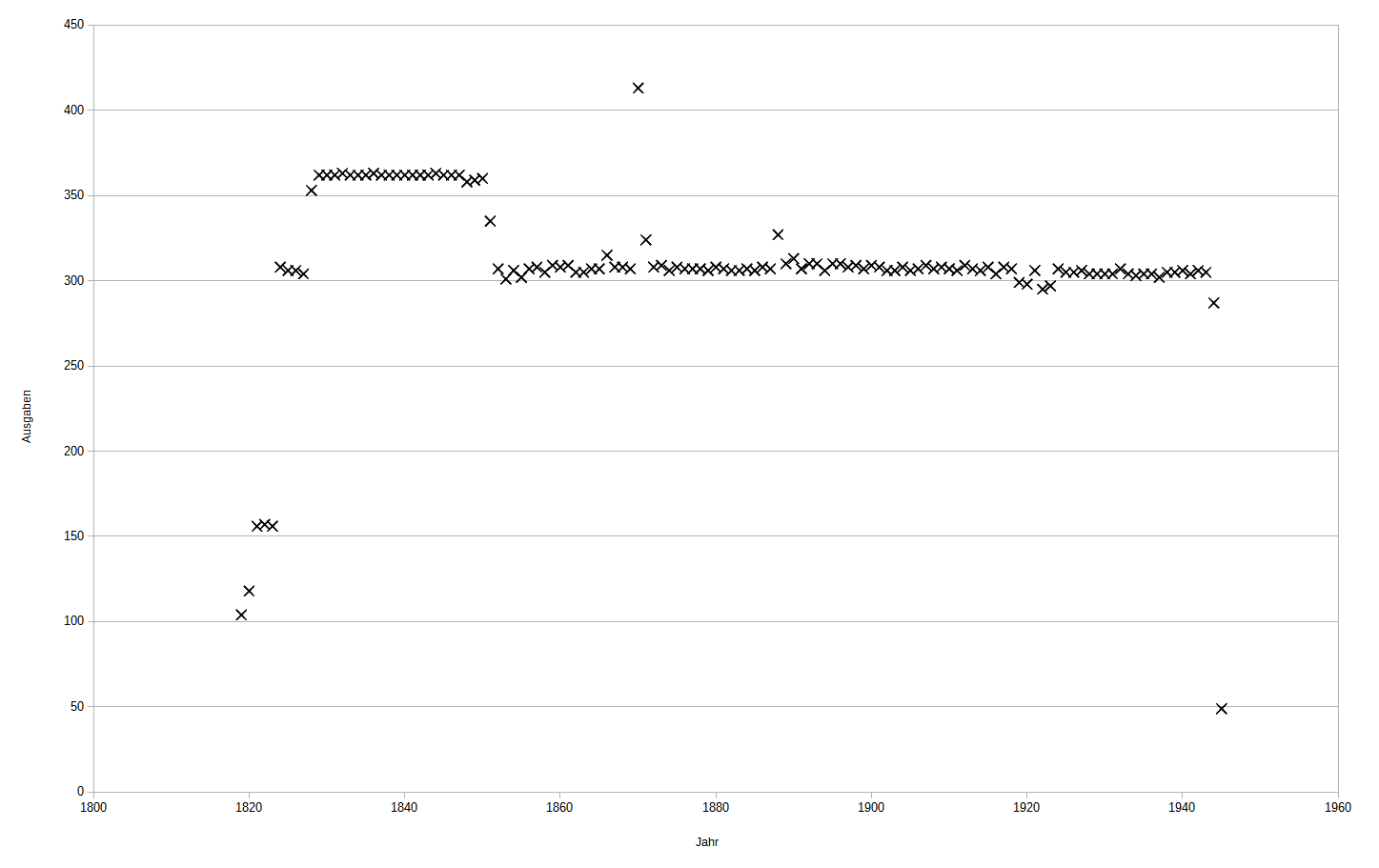 Newspaper issues per year (1819-1945) Allgemeine Preußische Staatszeitung until Deutscher Reichsanzeiger und Preußischer Staatsanzeiger